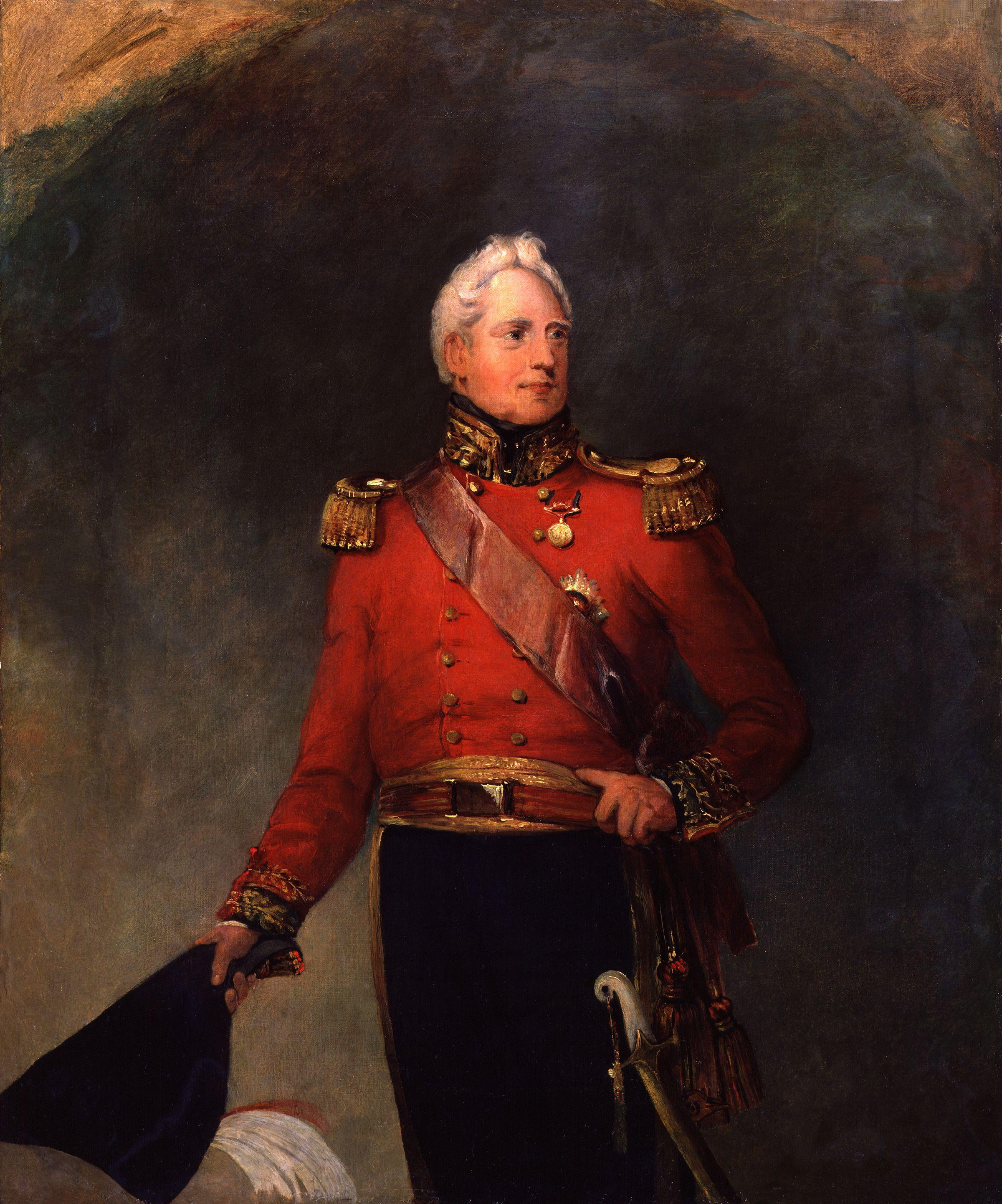 King William IV, by William Salter (died 1875). All images in this batch have been confirmed as author died before 1939 according to the official death date listed by the NPG.